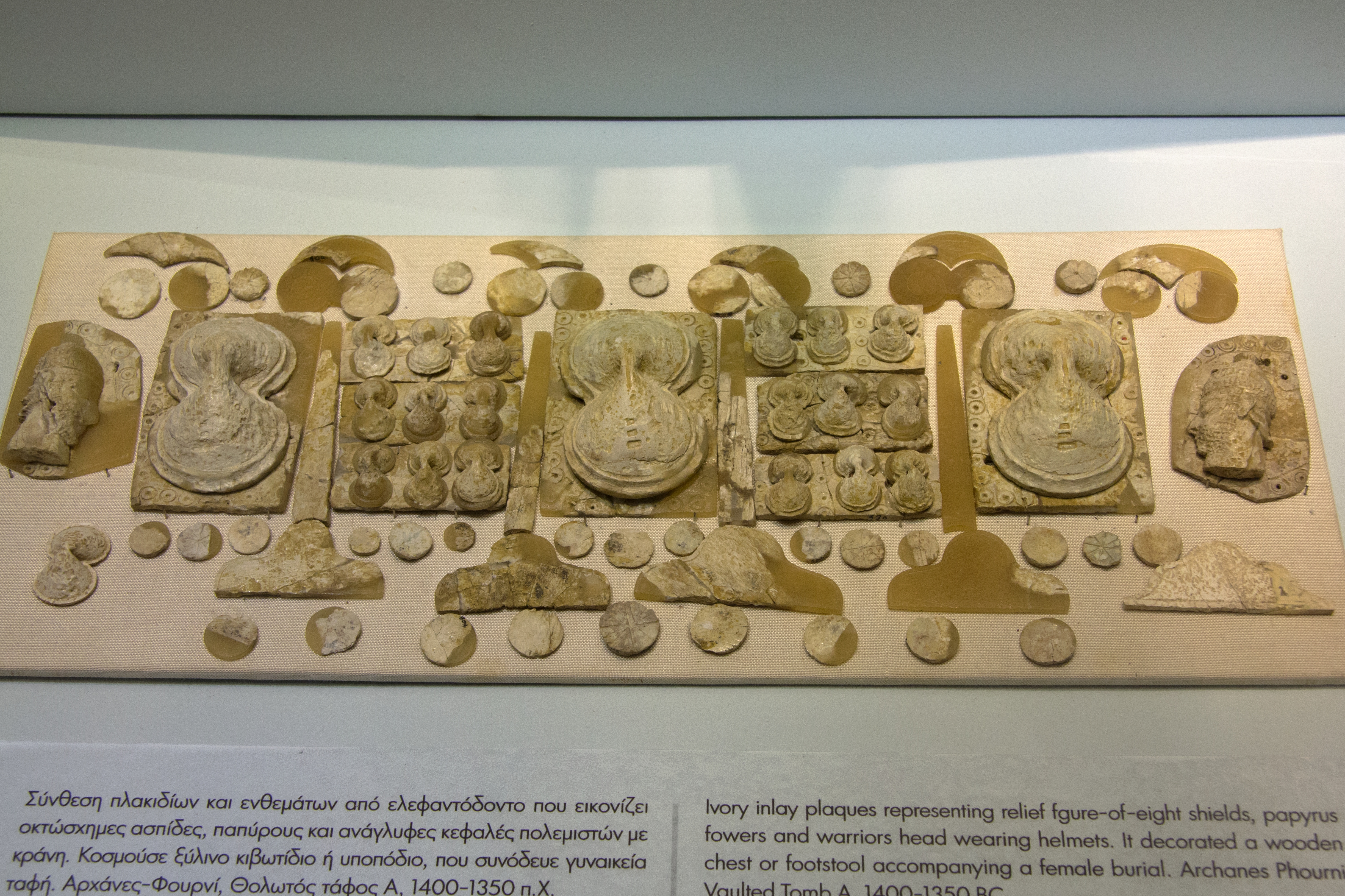 Ivory inlay plaques representing relief figure-of-eight shields, papyrus flowers and warriors head wearing helmets. It decorated a wooden chest or footstool accompanying a female burial. Archanes Phourni, Vaulted Tomb A, 1400-1350 BC. Archaeological Museum of Heraklion.